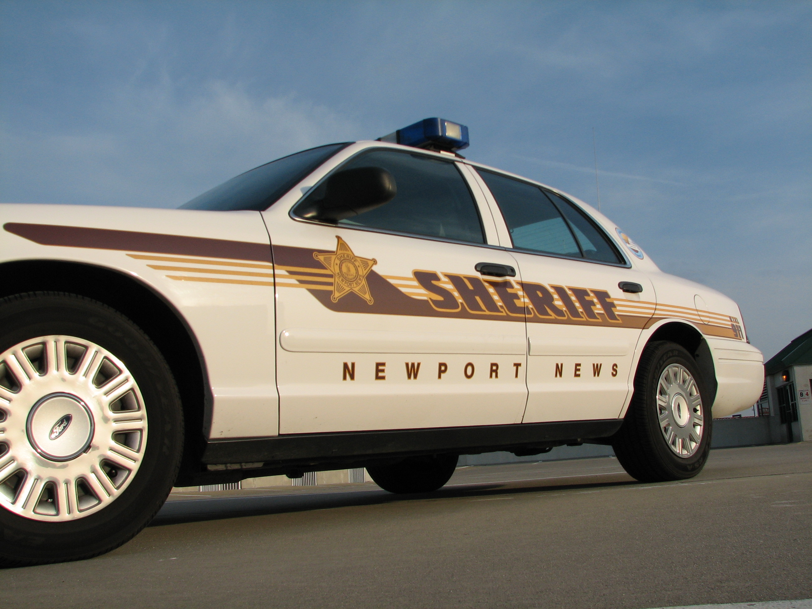 The Newport News Sheriff's Office is accredited by VLEPSC (Virginia Law Enforcement Professional Standards Commission).